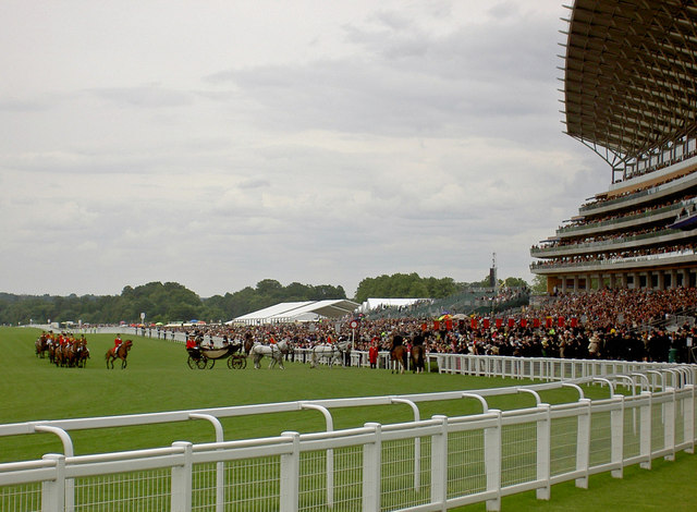 The Royal Family arrive The Queen arrives in a carriage on the Friday of Royal Ascot.